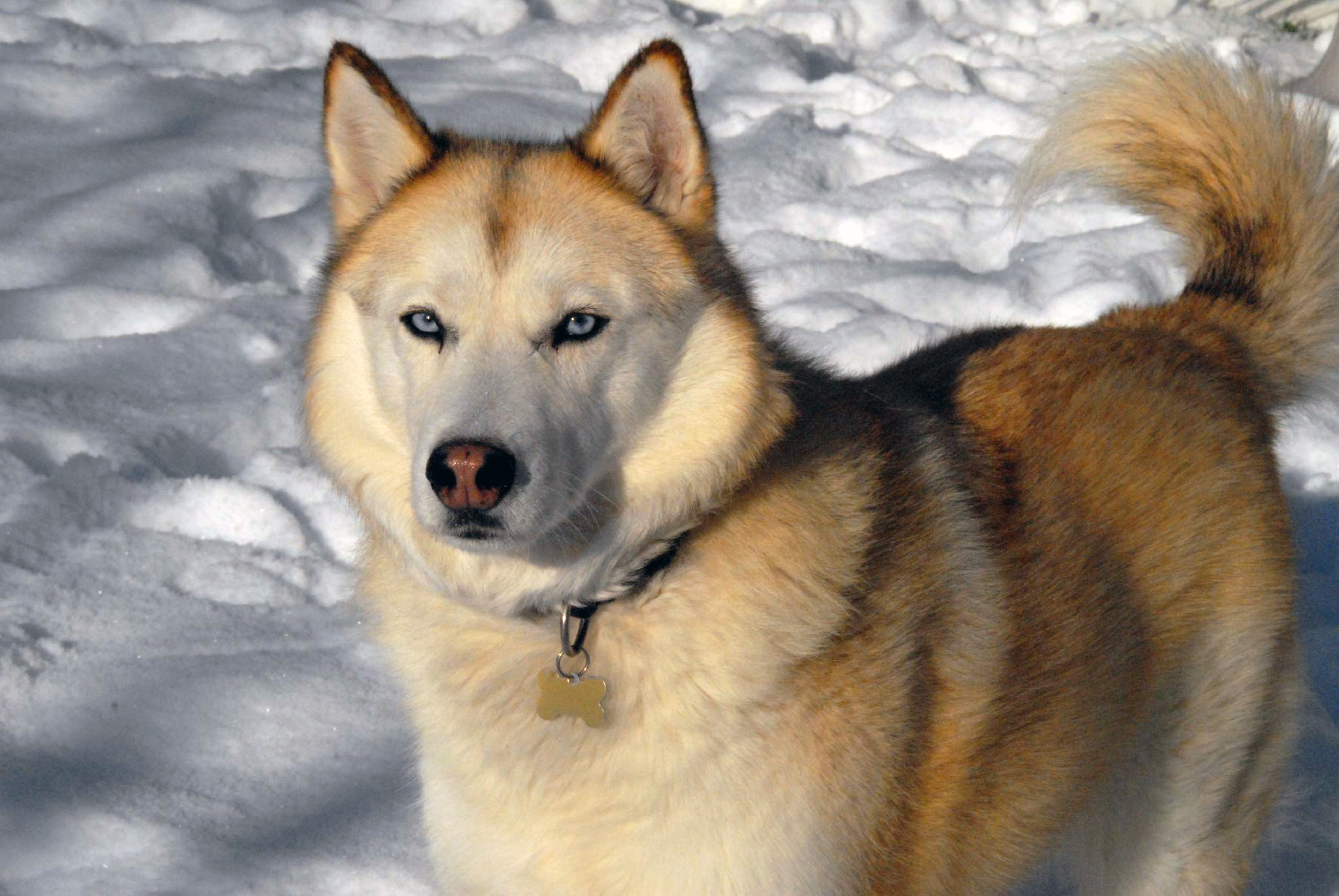 A "sable"-coloured Siberian Husky.